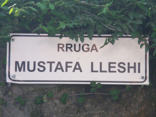 Street Sign on Rruga Mustafa Lleshi, Tirana, Albania